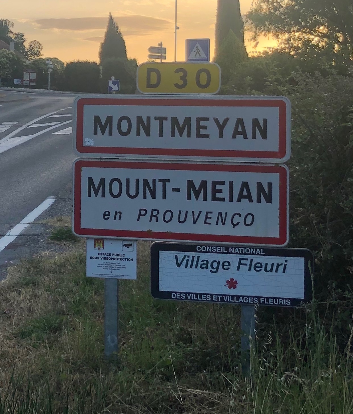 Traffic sign at the entrance of the village of Montmeyan, in French and in Provencal